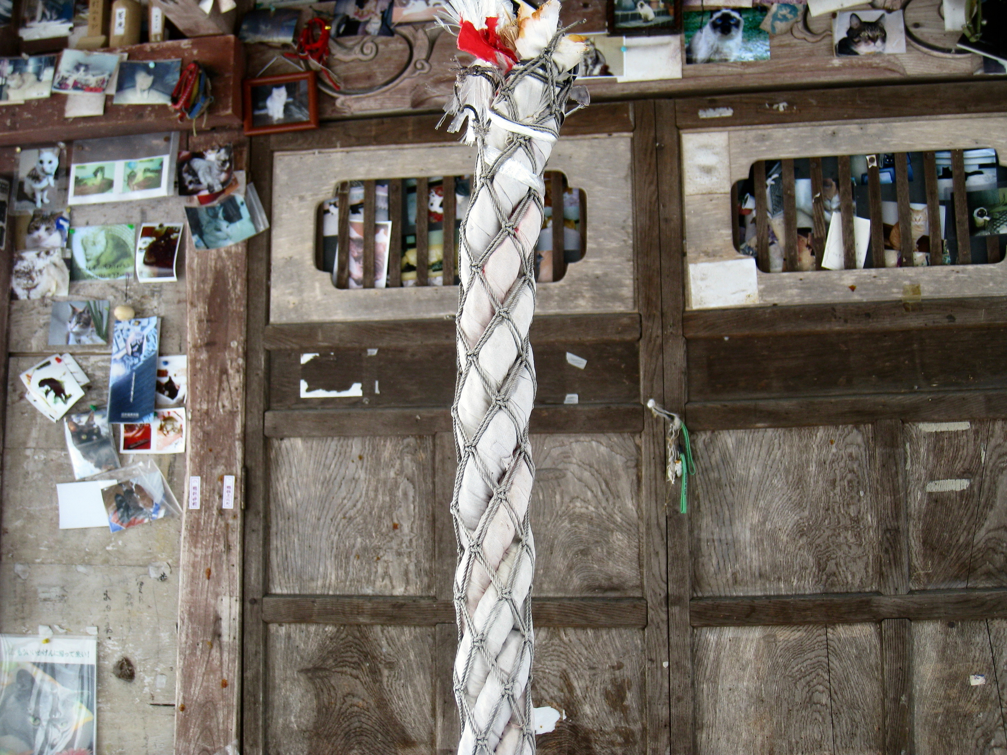 Haiden (worship hall) at the Neko no Miya shrine in Takahata Town, Yamagata Prefecture, Japan